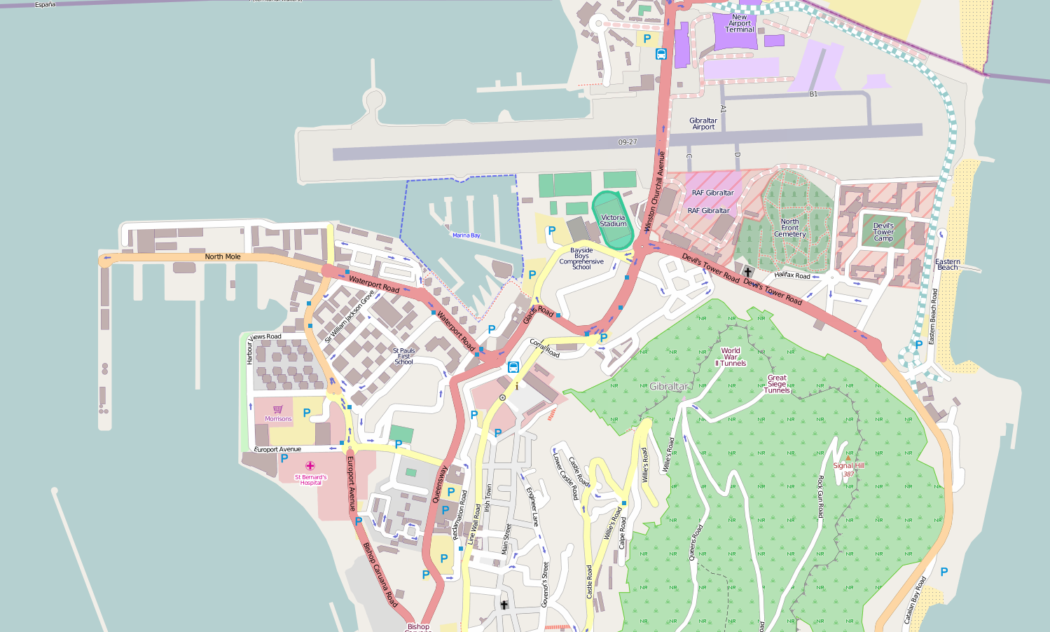 Roads in Gibraltar, northern